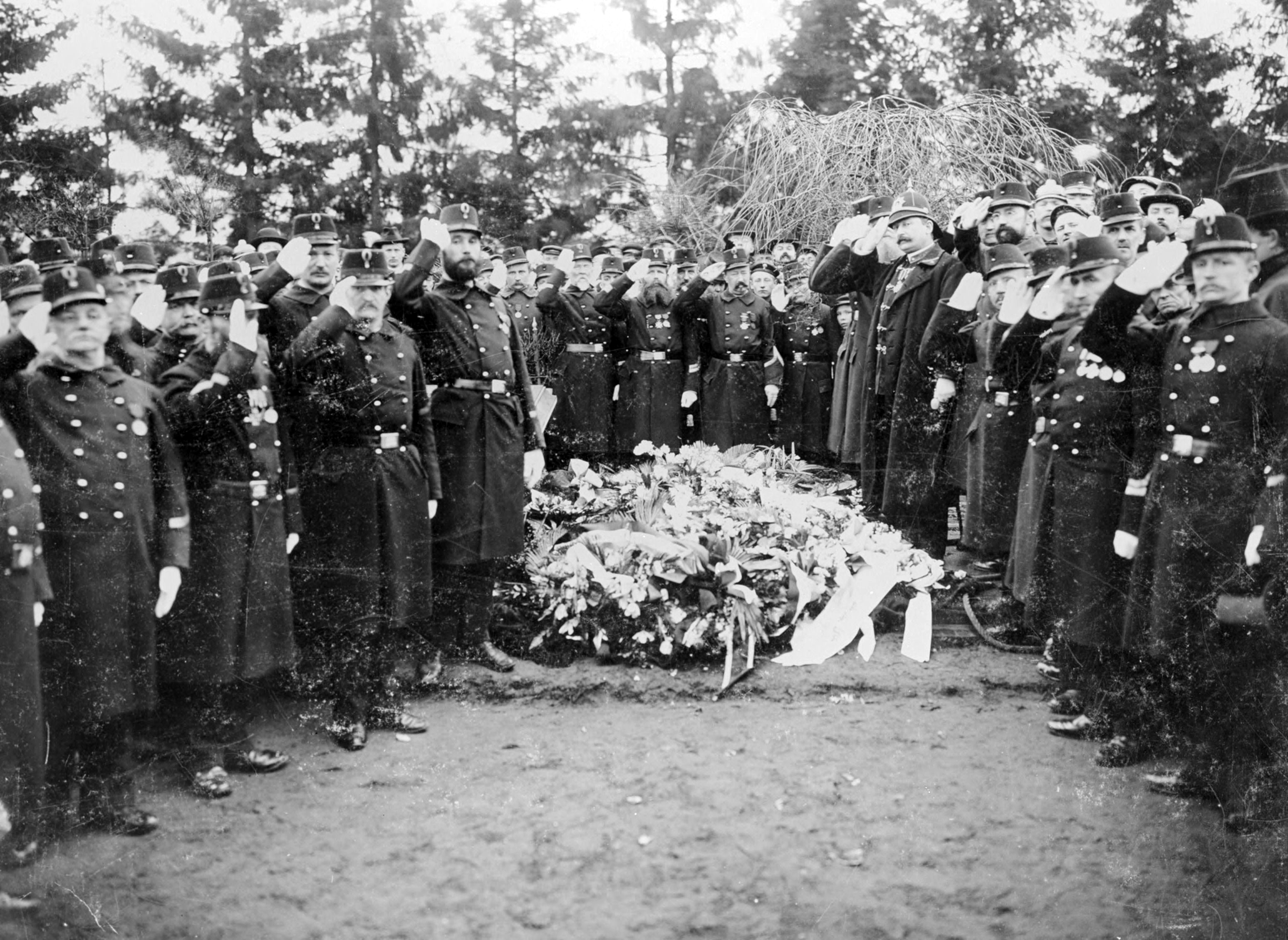 Afscheid van Karel van der Heijden